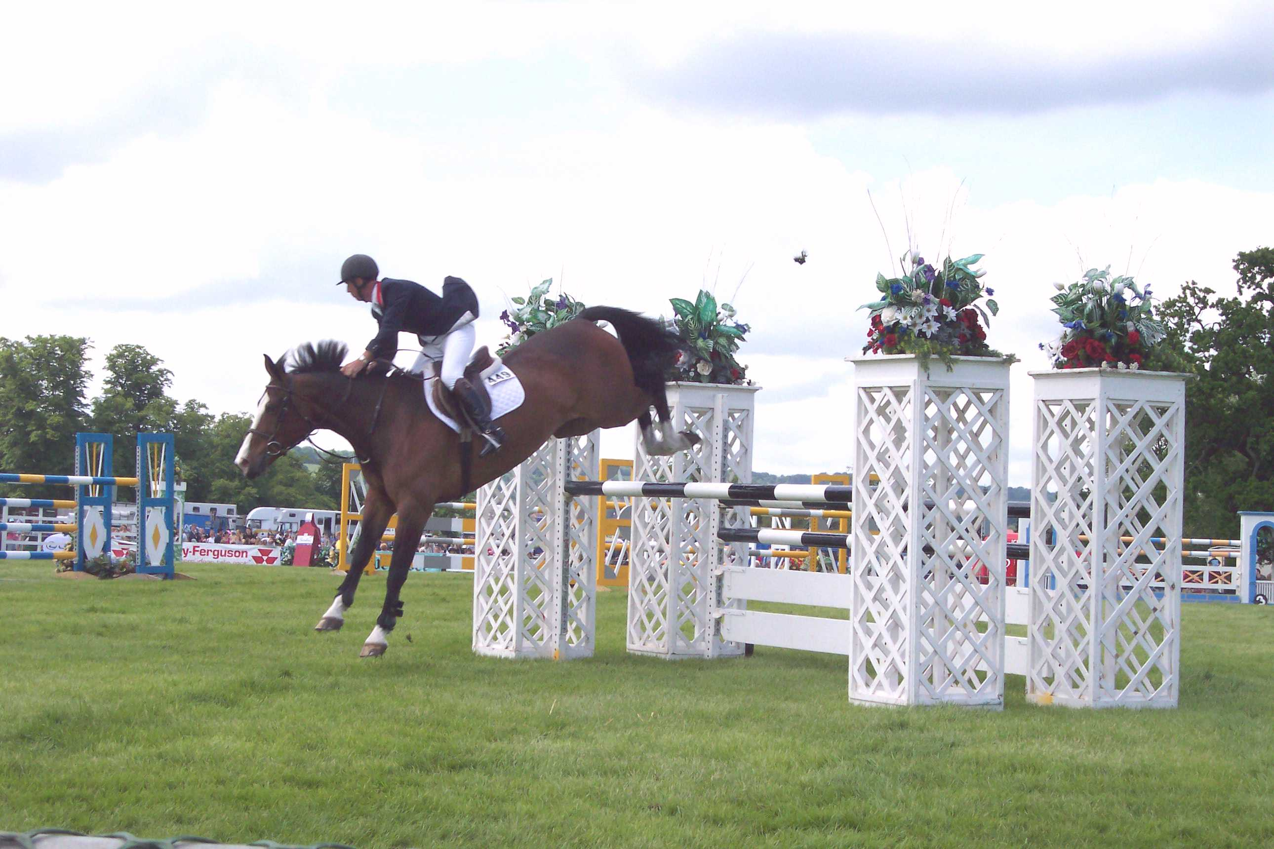 Show jumping at the Surrey County Show, Guildford in May 2004.